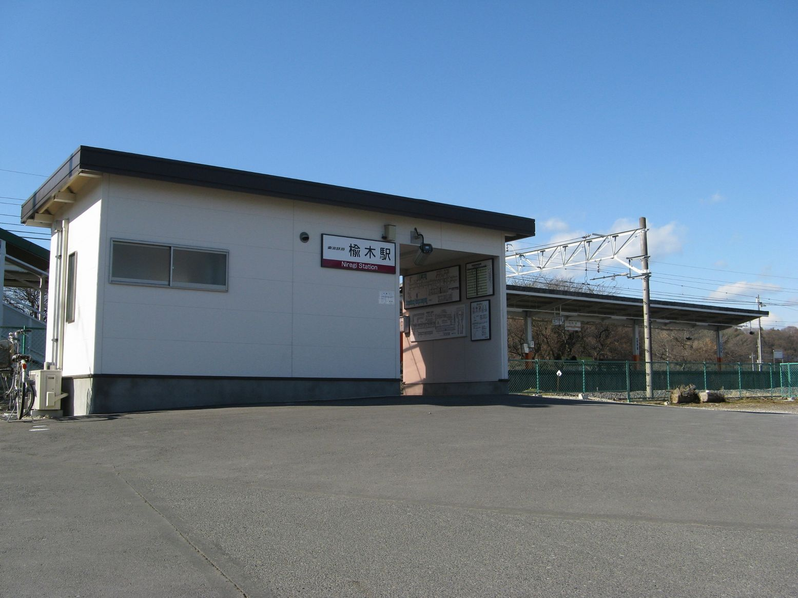 Niregi Station of the Tōbu Nikko Line, Kanuma, Tochigi, Japan